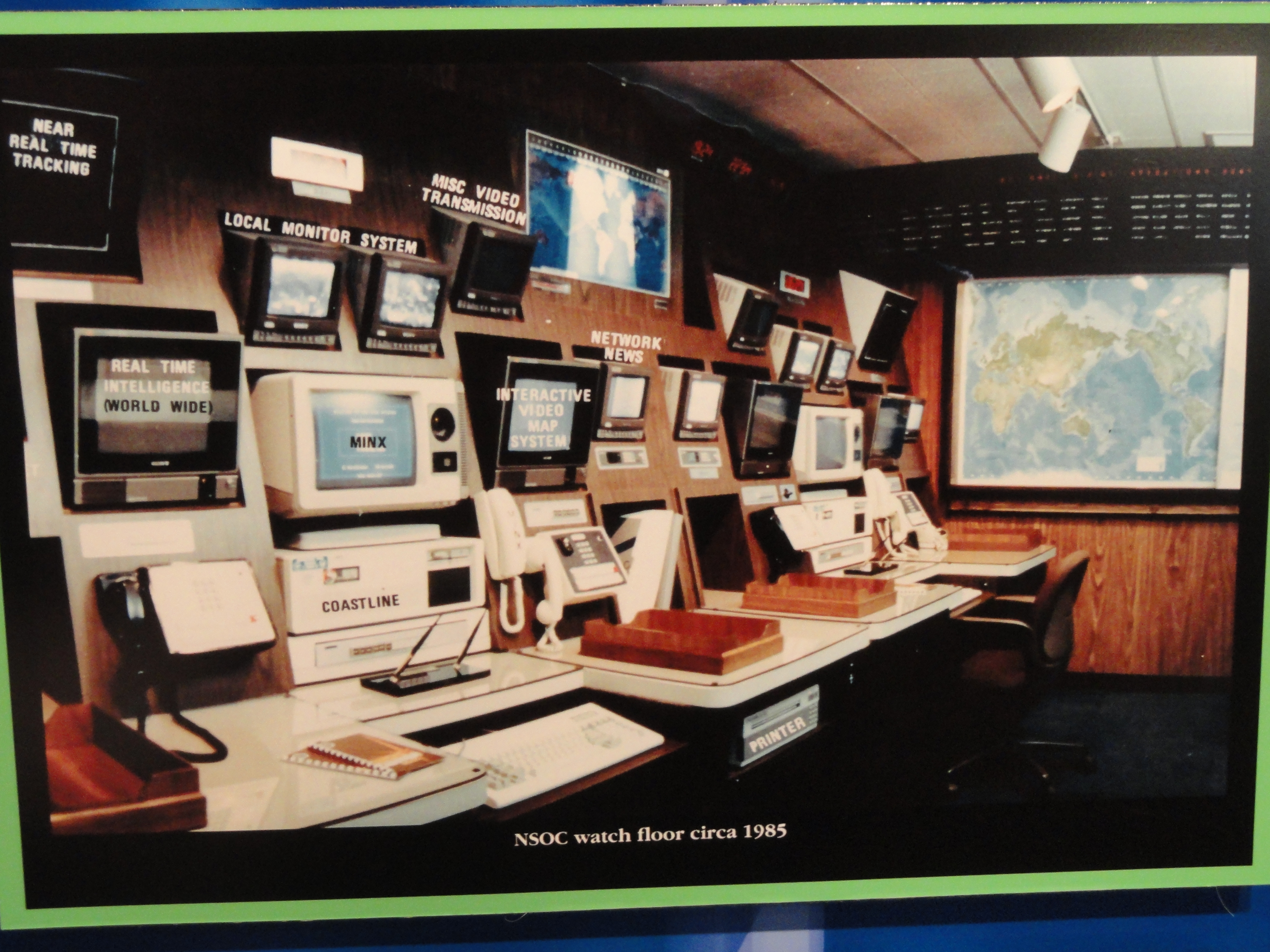 Exhibit in the National Cryptologic Museum, Fort Meade, Maryland, USA. All items in this museum are unclassified; items created by the United States Government are not subject to copyright restrictions.